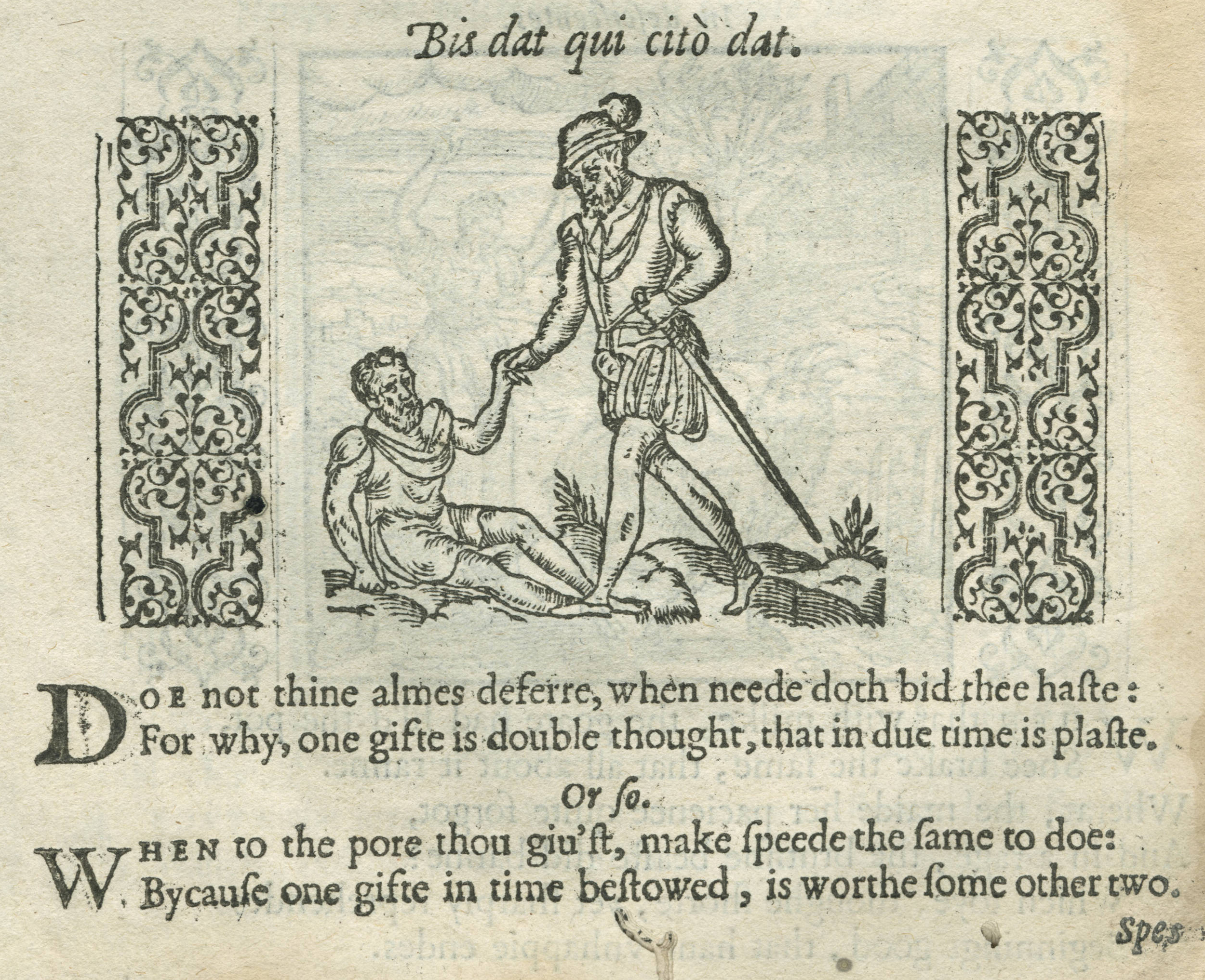 Emblem from A Choice of Emblemes by Geoffrey Whitney